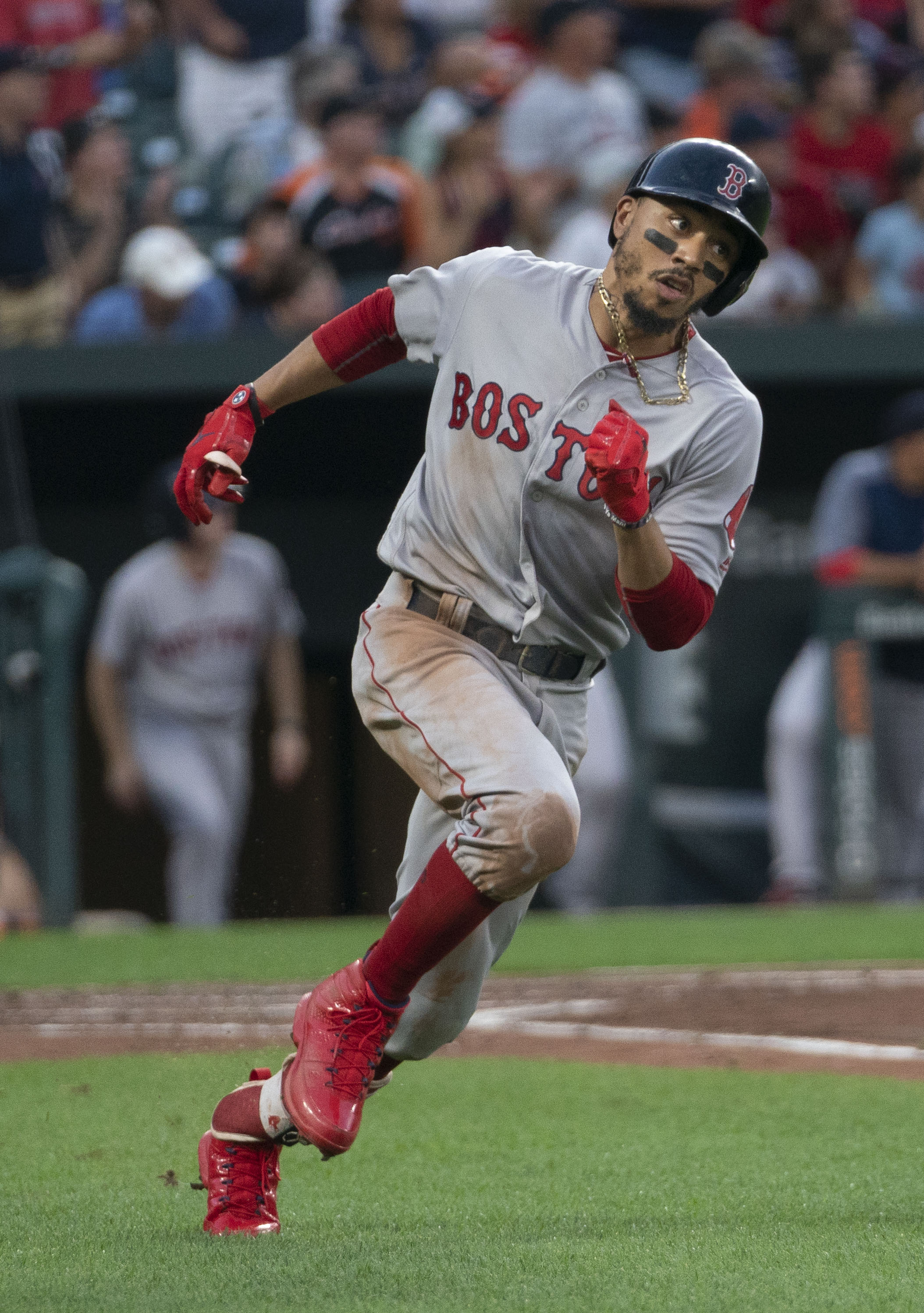 Red Sox at Orioles 8/10/18